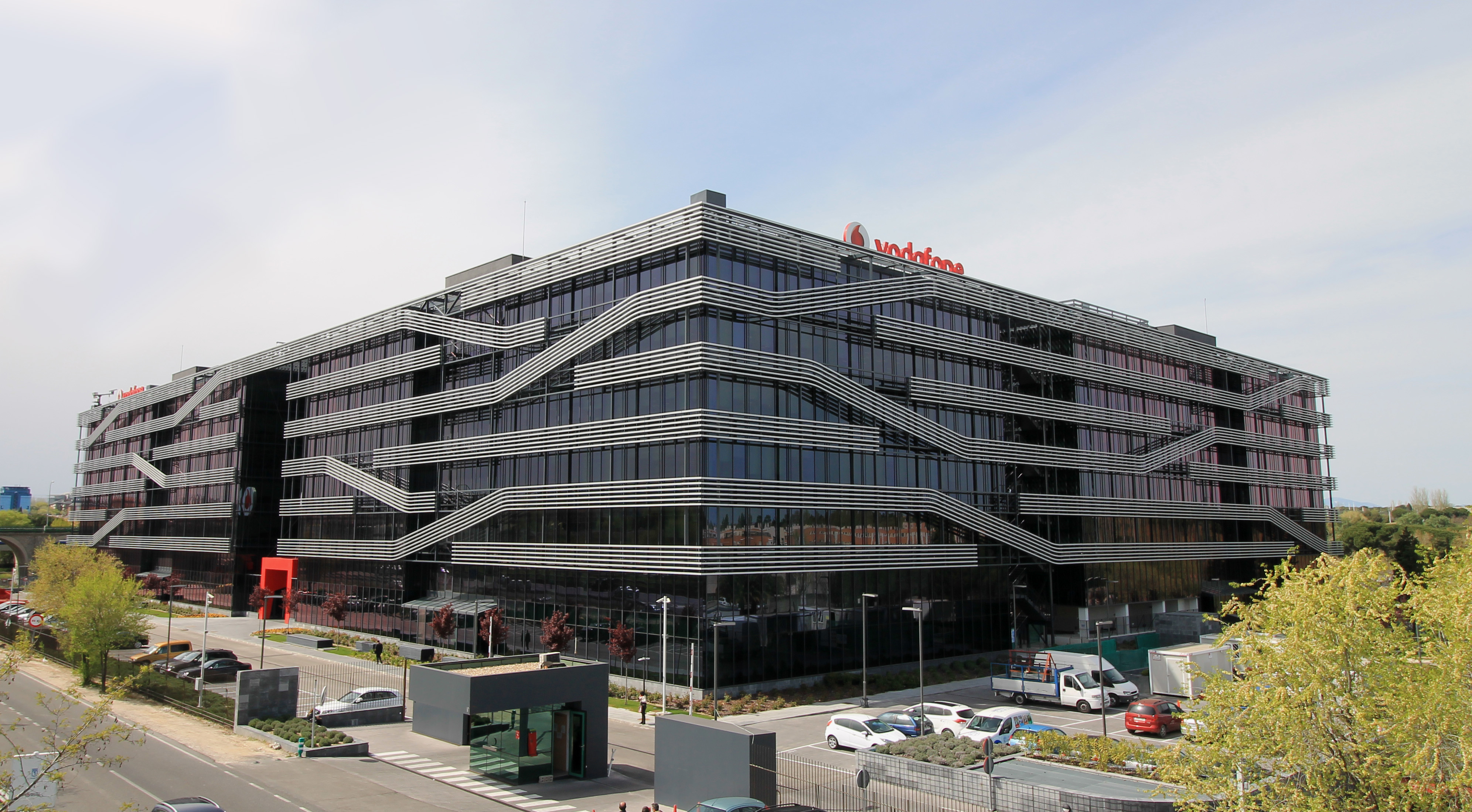 View of Vodafone offices in Madrid (Spain).